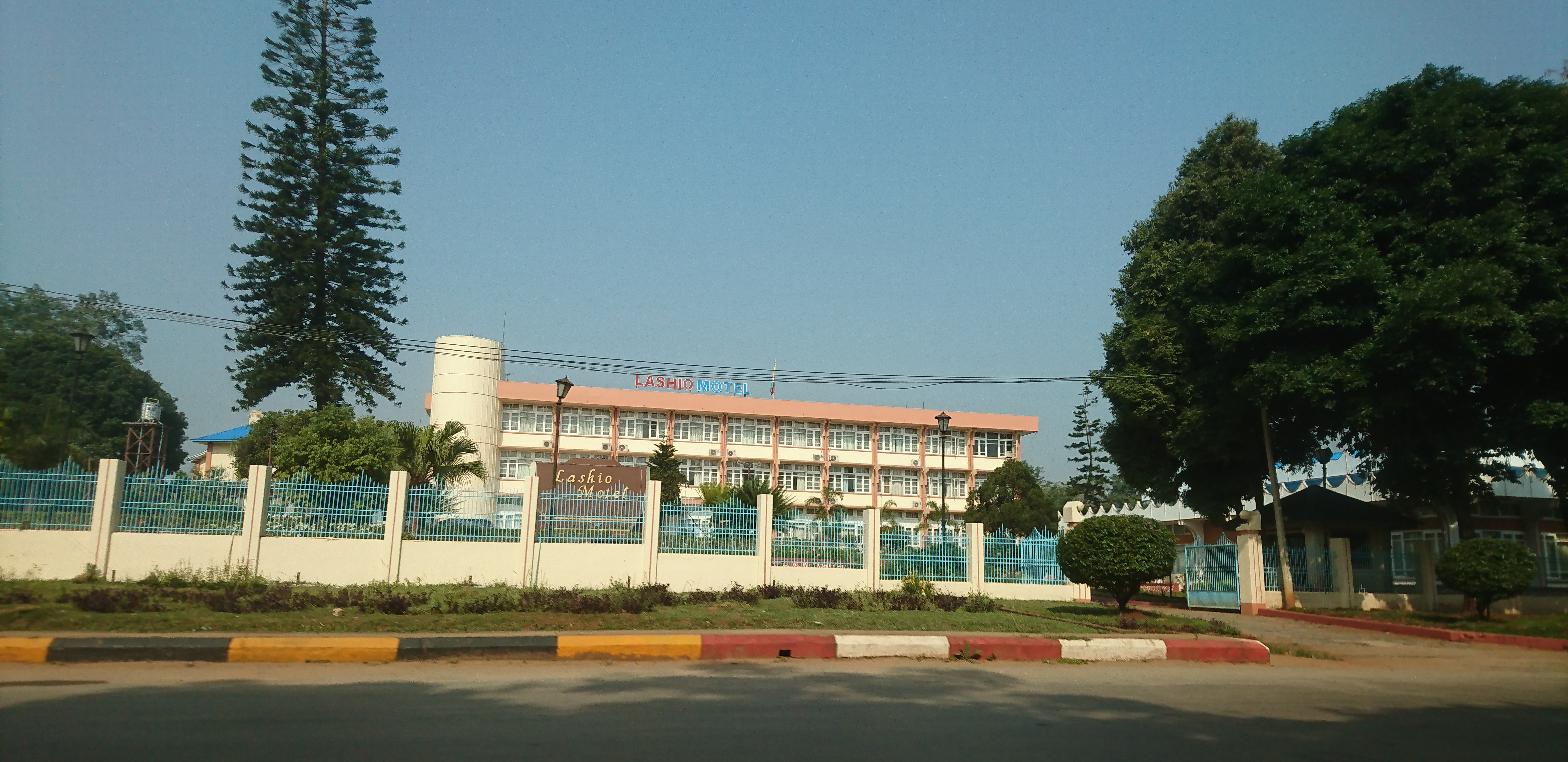 Lashio Motel မြန်မာဘာသာ: လားရှိုးမိုတယ်